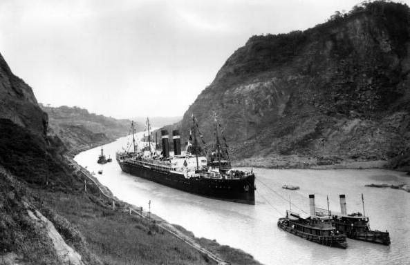 SS Kroonland is seen on 2 February 1915 at the Culebra Cut while transiting the Panama Canal. Kroonland was the largest passenger ship to that time to transit the canal.